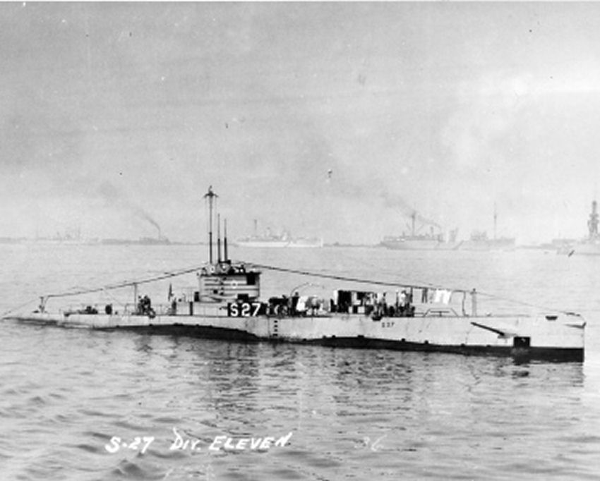 USS S-27 (SS-132). At night June 19, 1942, the submarine surfaced to recharge the batteries, but drifted in heavy fog and grounded on rocks off Saint Makarius Point on Amchitka Island. The entire crew escaped, the ship was a loss.